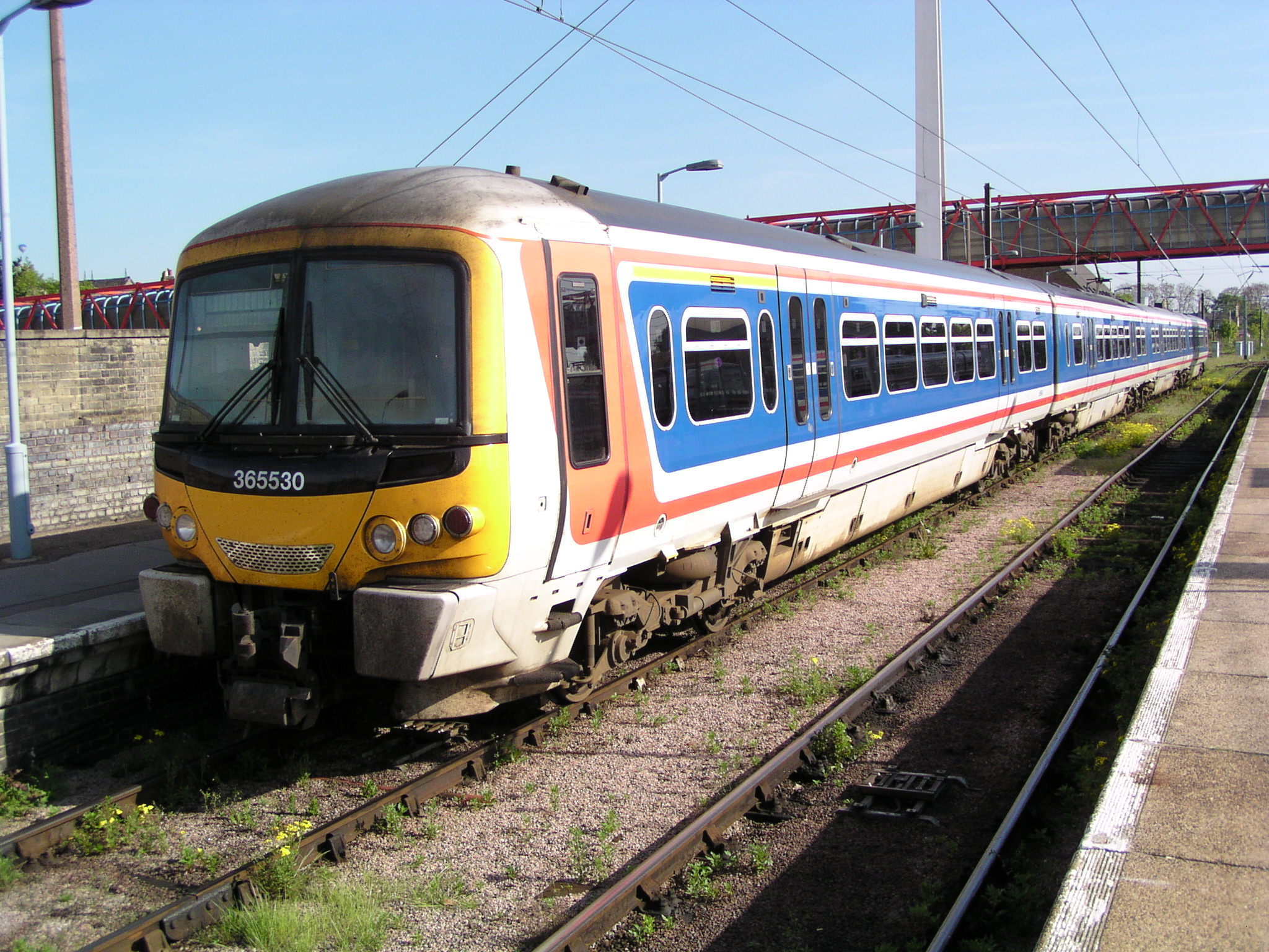 BR Class 365 "Networker Express", no. 365530 arriving at Cambridge on 15th May 2004, with a service from King's Lynn. This unit is operated by WAGN, and has a modified front end with cab air conditioning. It is still painted in obsolete Network SouthEast livery. Image by Phil Scott (Our Phellap)